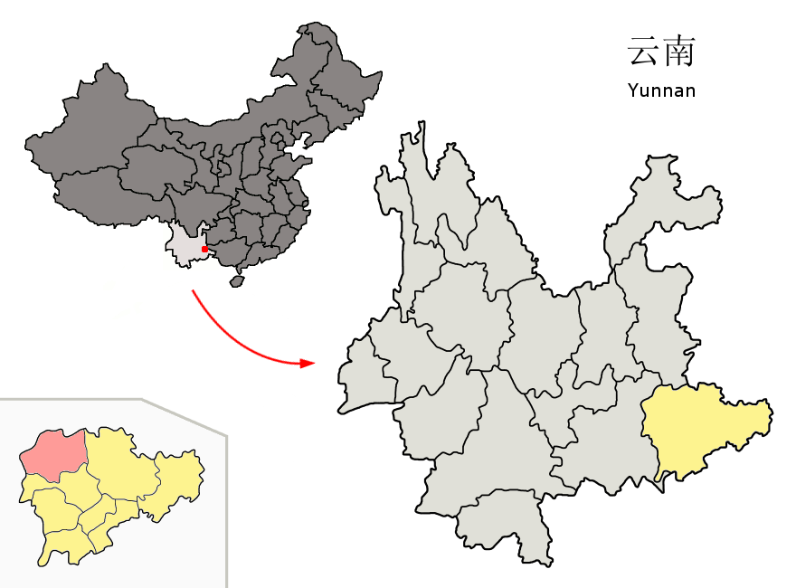 Location of Qiubei County (pink) and Wenshan Prefecture (yellow) within Yunnan province of China Map drawn in october 2007 using various sources, mainly : Yunnan province administrative regions GIS data: 1:1M, County level, 1990 Yunnan Counties map from